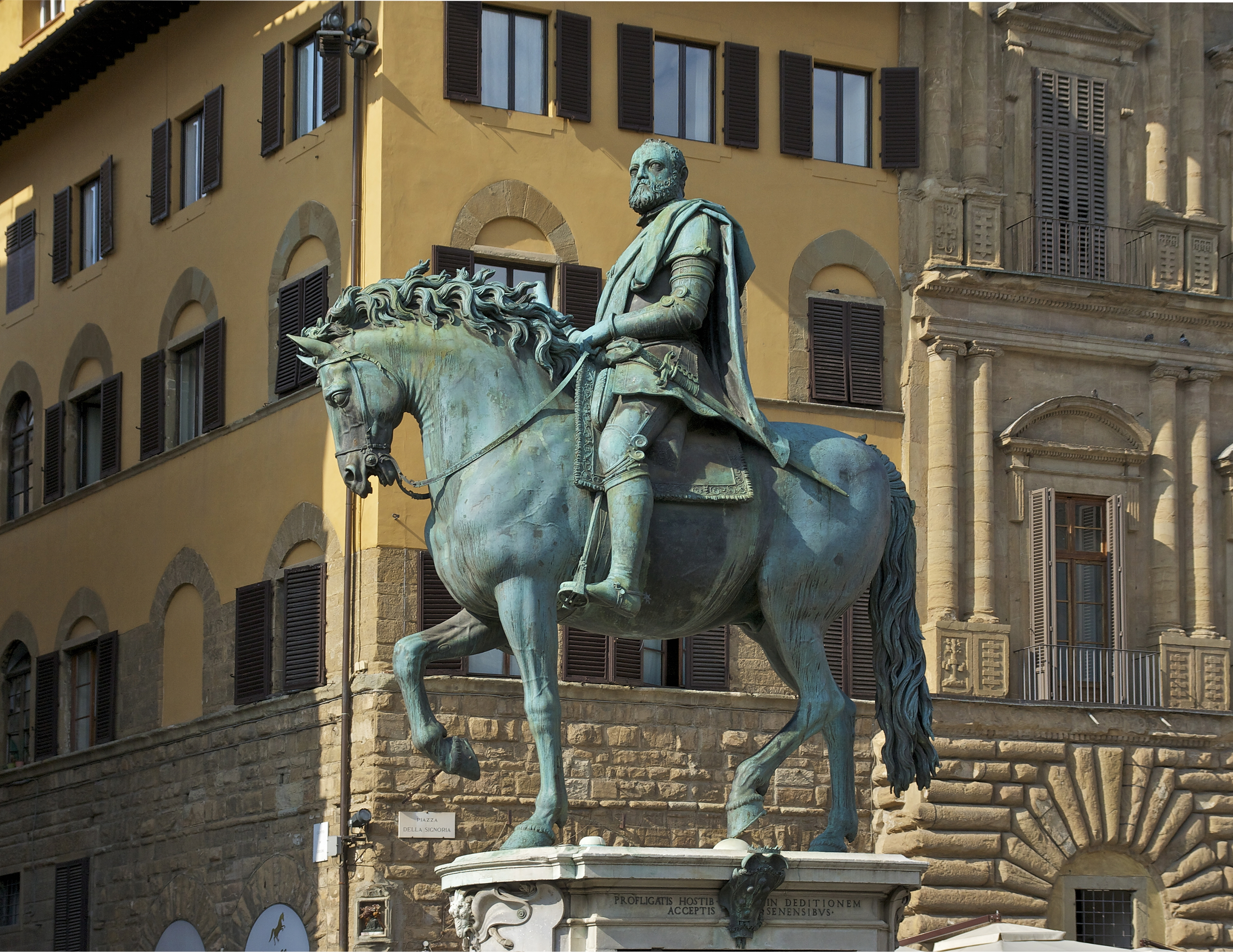 The equestrian statue to Cosimo I de' Medici, Grand Duke of Tuscany, by Giambologna, Piazza della Signoria, Florence, Italy